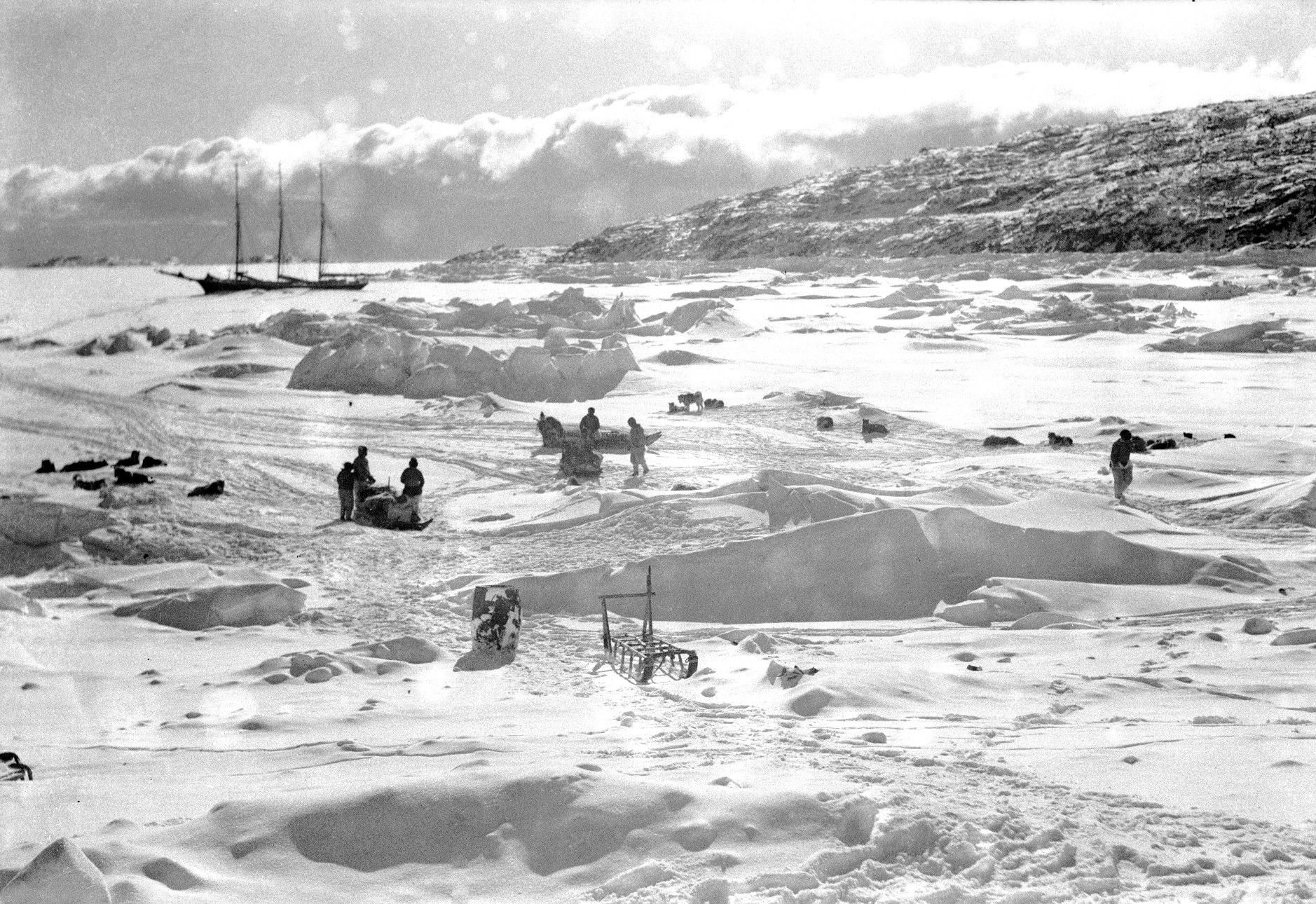 Schooner A.W. Greely frozen in for the winter of 1937-38